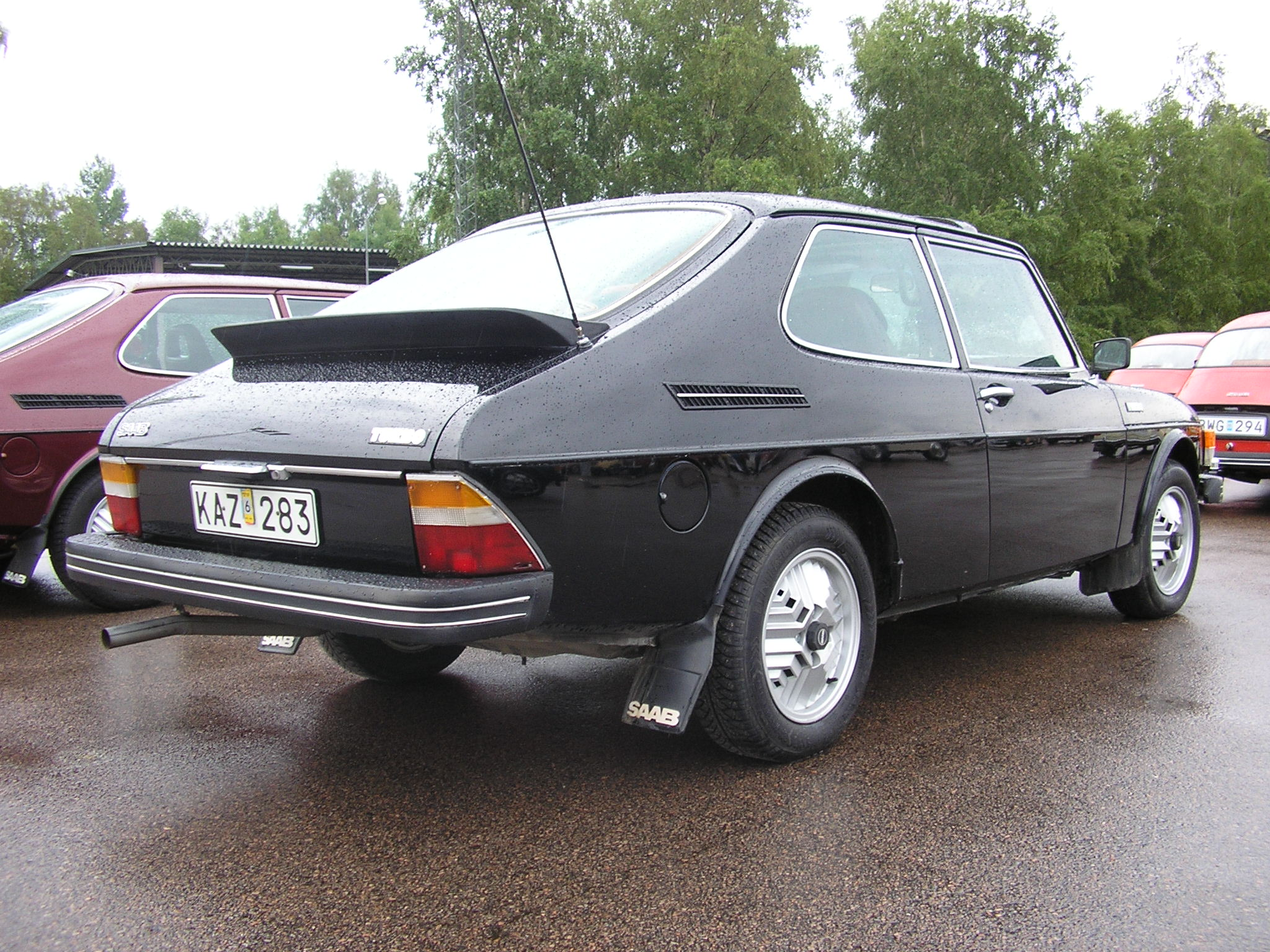 A 1978 SAAB 99 Turbo at the International SAAB Club Meeting 2006. The owner spent six years restoring the car.